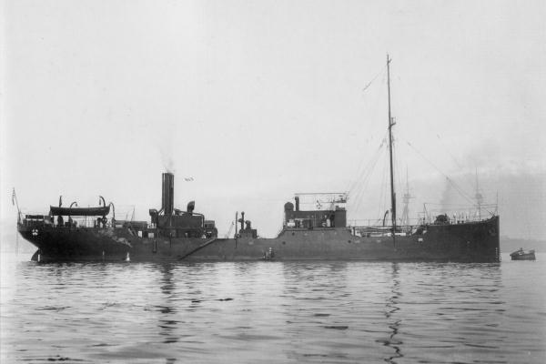 Japanese oiler TSURUGIZAKI at Kure Naval Base.